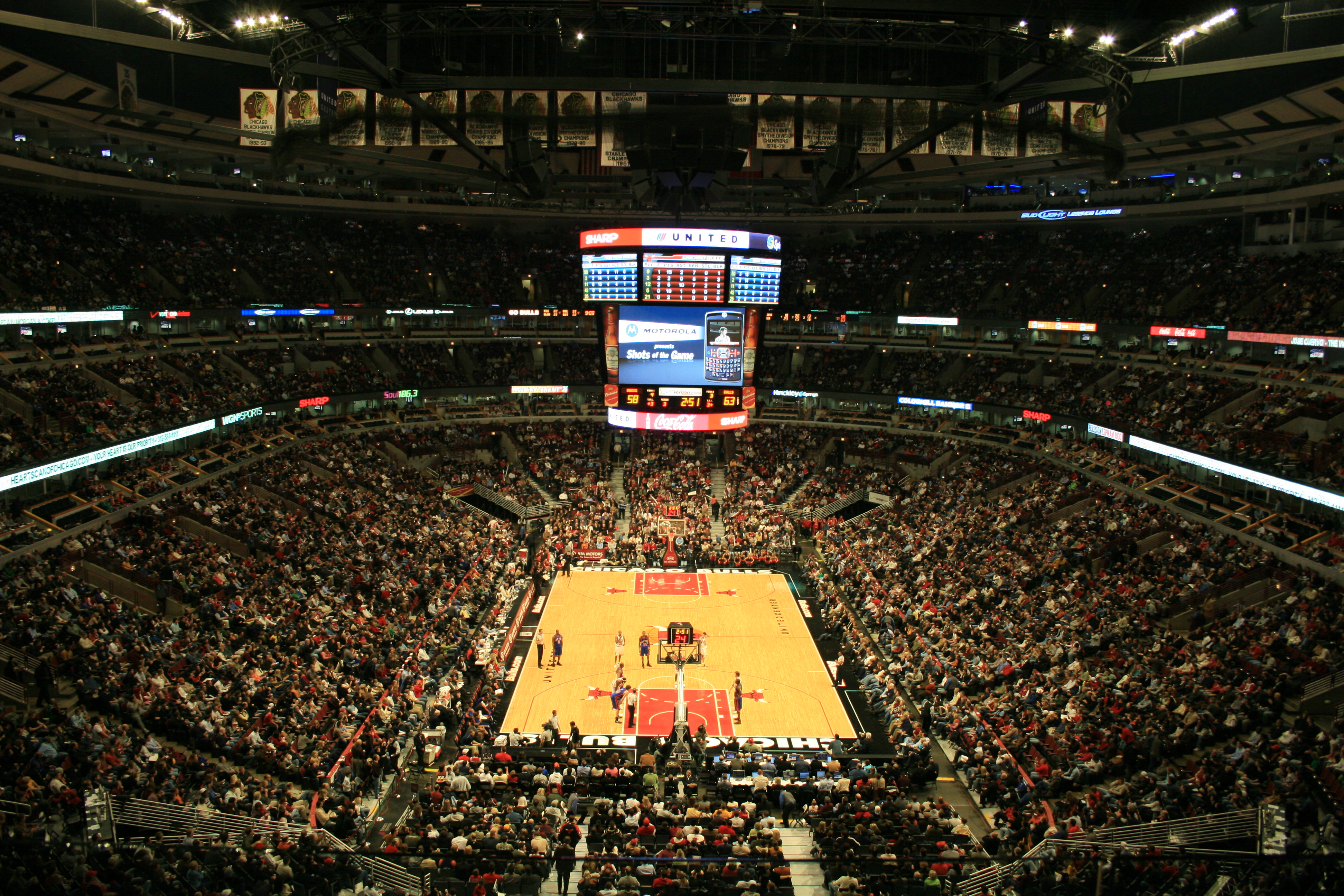 The United Center in Chicago, IL, during an NBA game between the Chicago Bulls and New York Knicks.